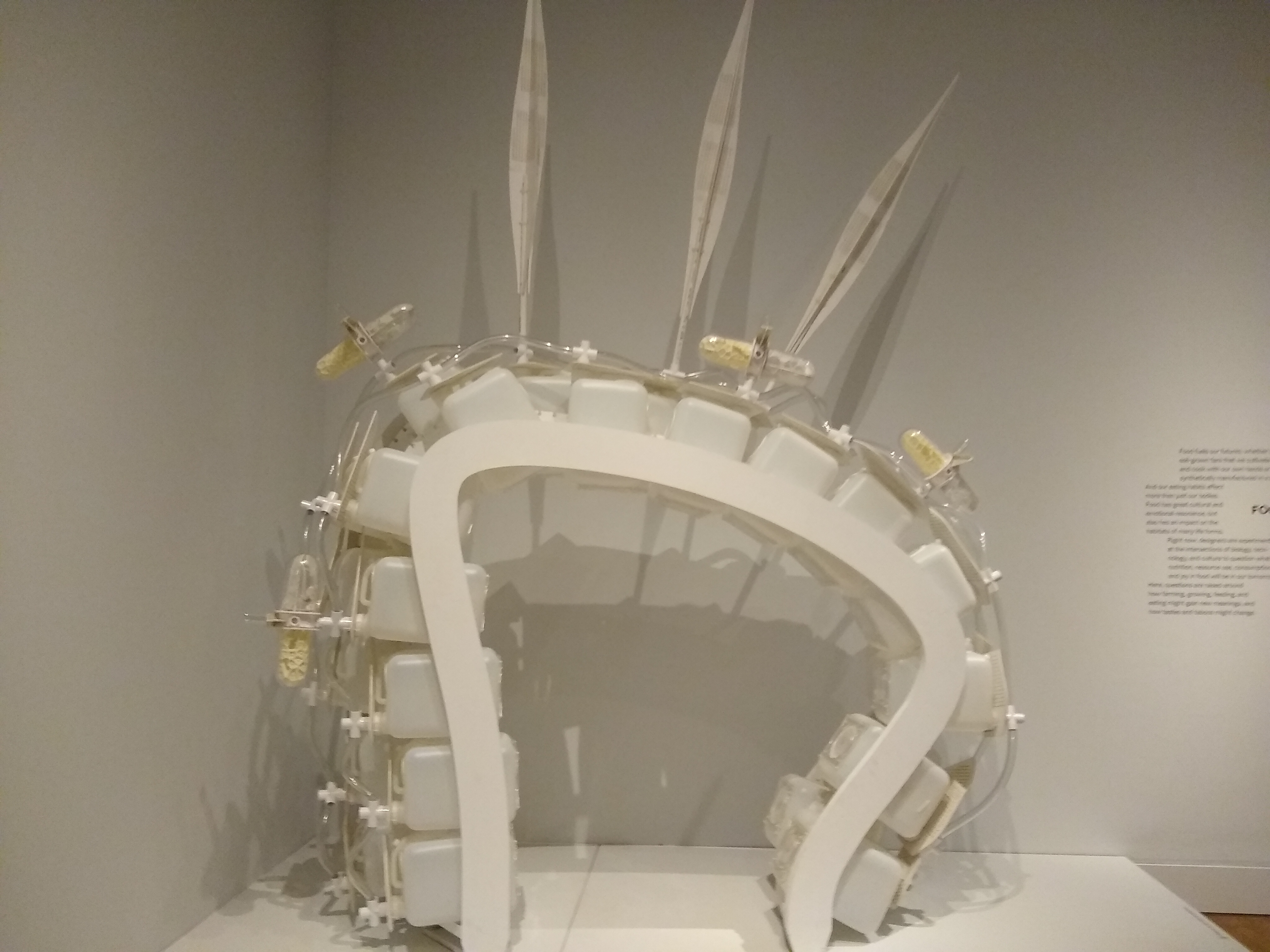 Cricket Shelter Modular Section of Edible Insect Farm designed by Mitchell Joachim of Terreform ONE. Displayed as part of the exhibit "Designs for Different Futures" at the Philadelphia Museum of Art 2019-2020. Shown is a modular section of an insect farm for crickets, with areas for reproduction and living space. The "quills" on top channel air through the module. Crickets could be farmed as a food source and ground into a protein-rich flour.